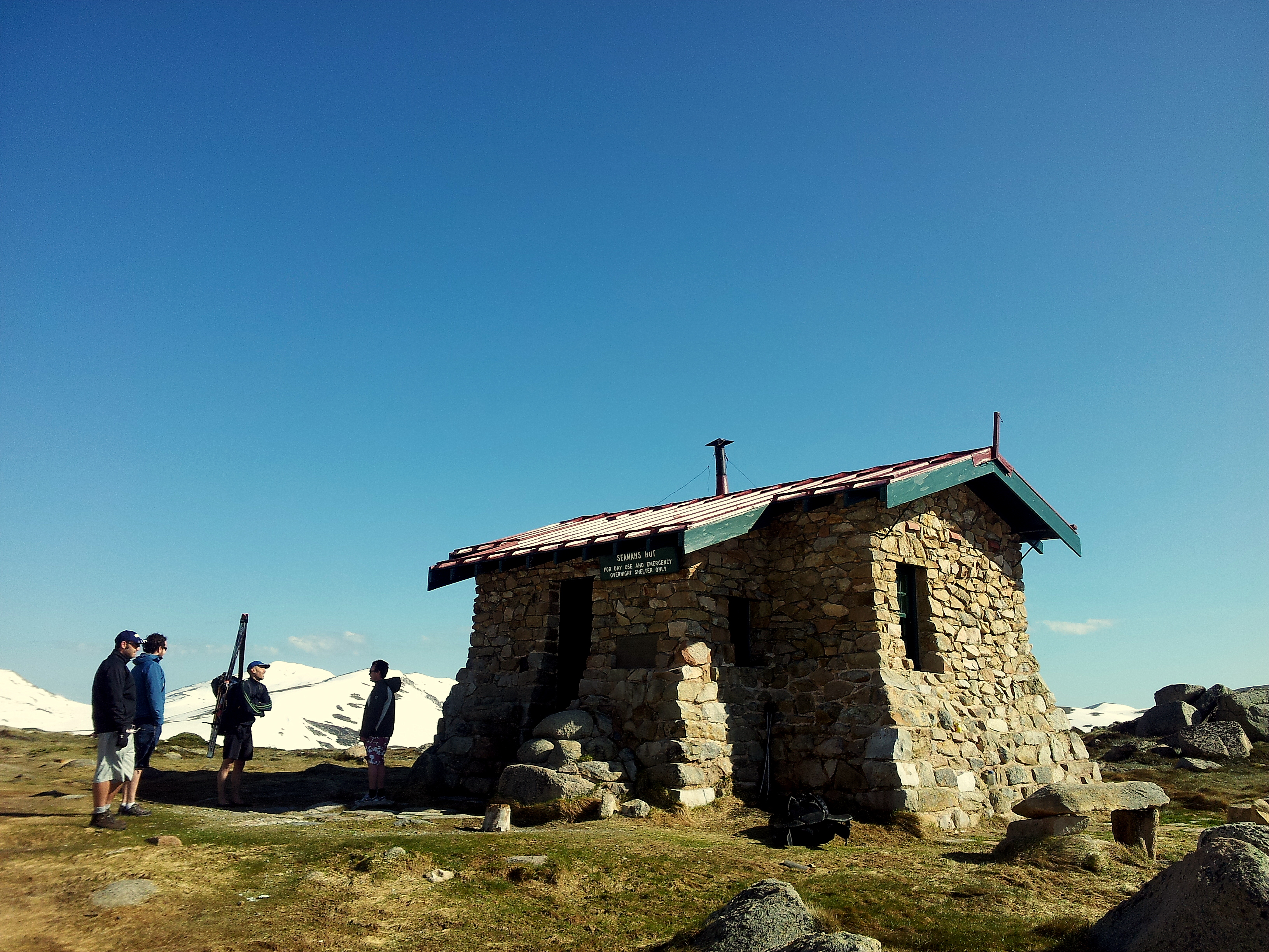 A skier talking with walkers at Seaman's Hut, 23 October 2011